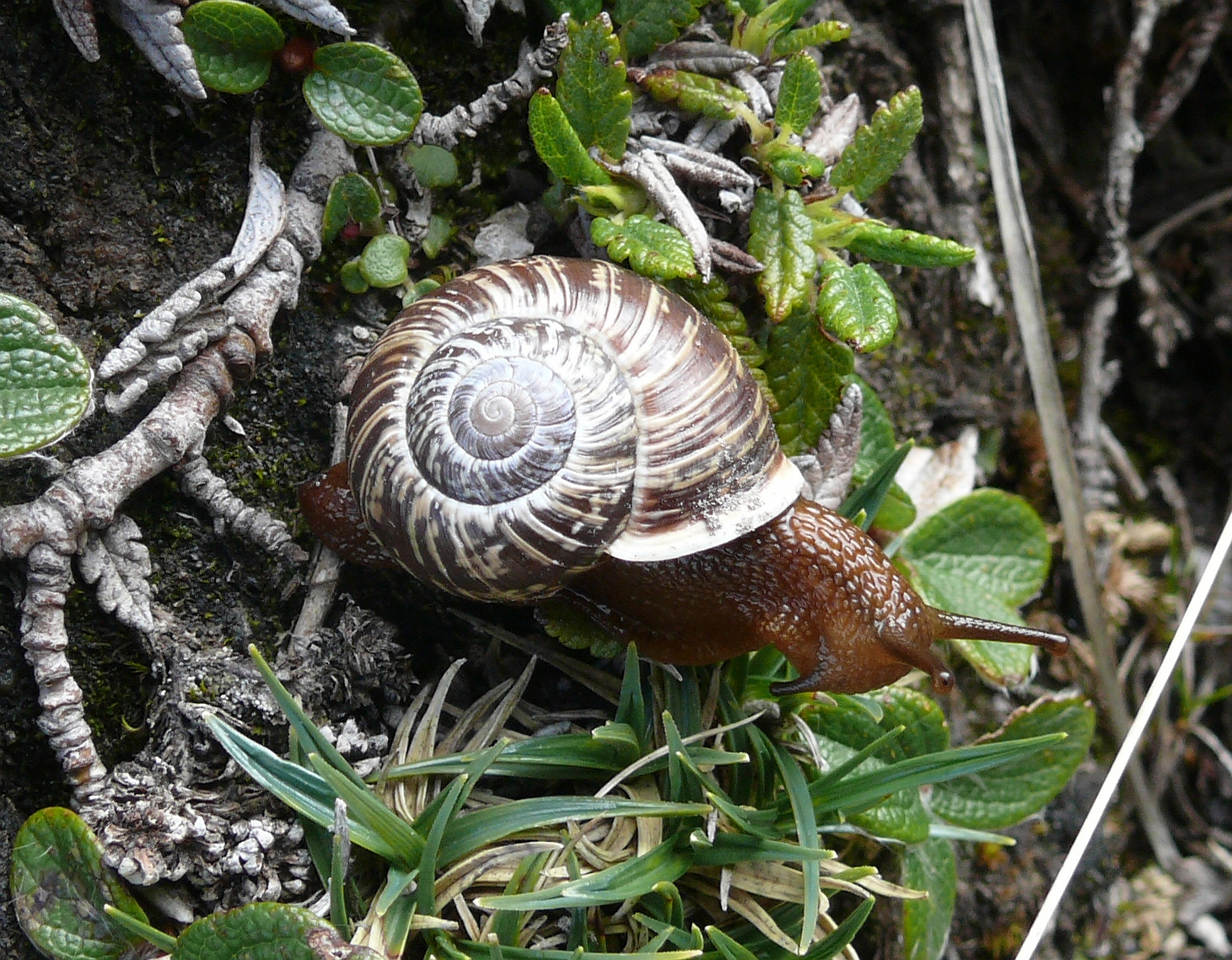 Arianta arbustorum, Puez-Geisler-Gruppe, Italyabove:Dryas octopetalaleft: Salix reticulatabelow: Carex firma